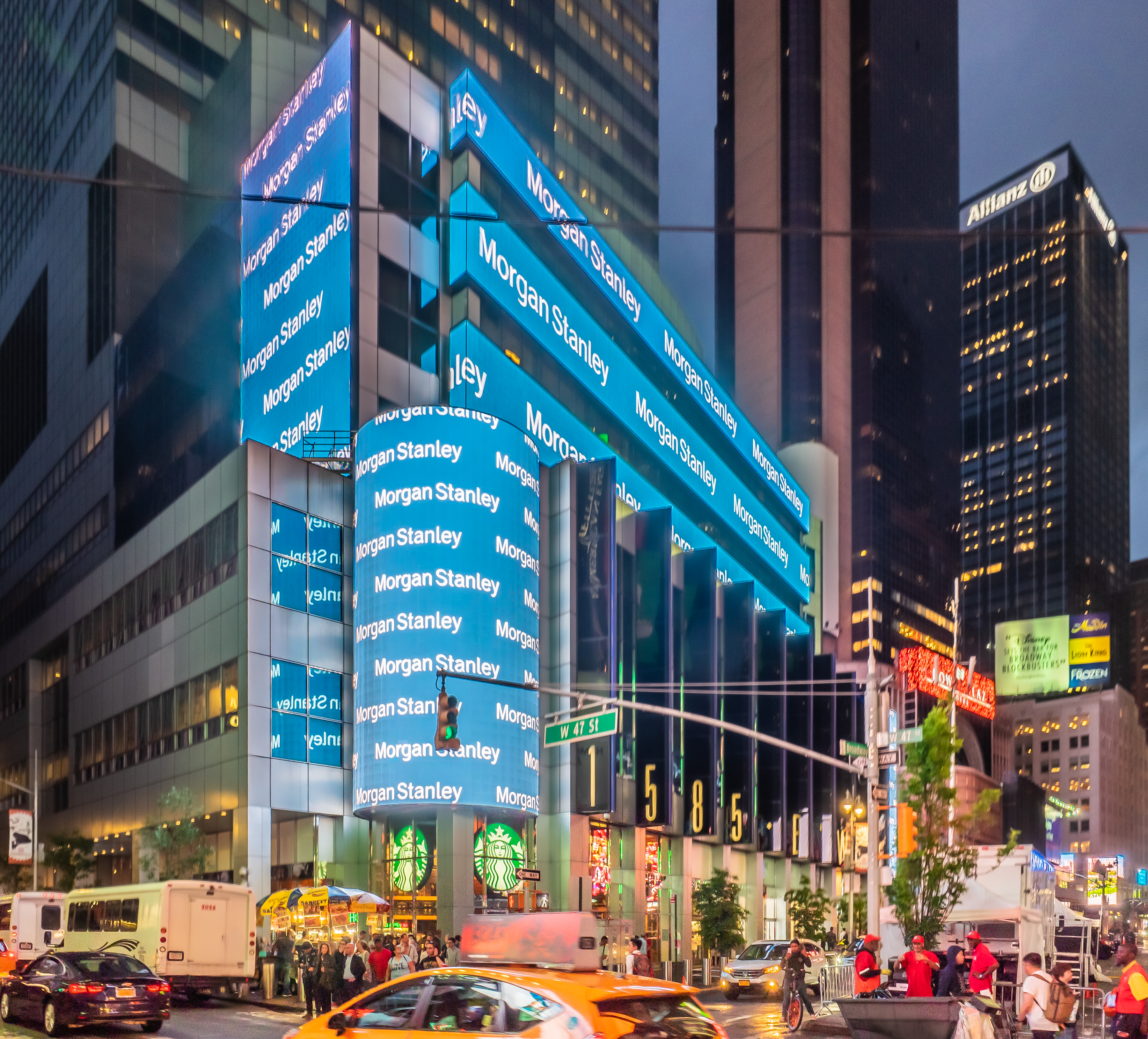 Midtown, NYC